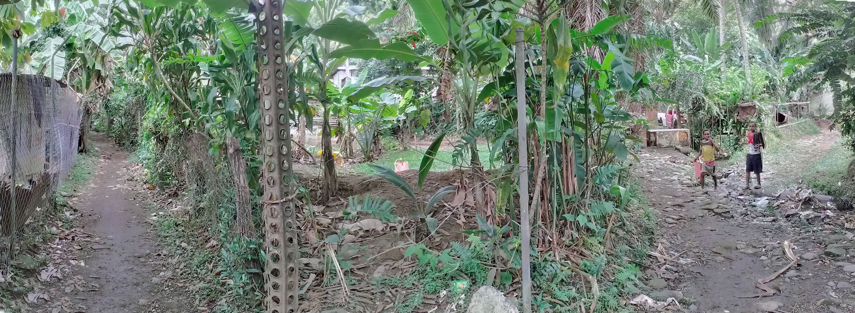 Typical foot lanes from vehicle lane off Mountain Cresent - Boundry / Atzera Settlements. Note the WW2 parts used as fence post.